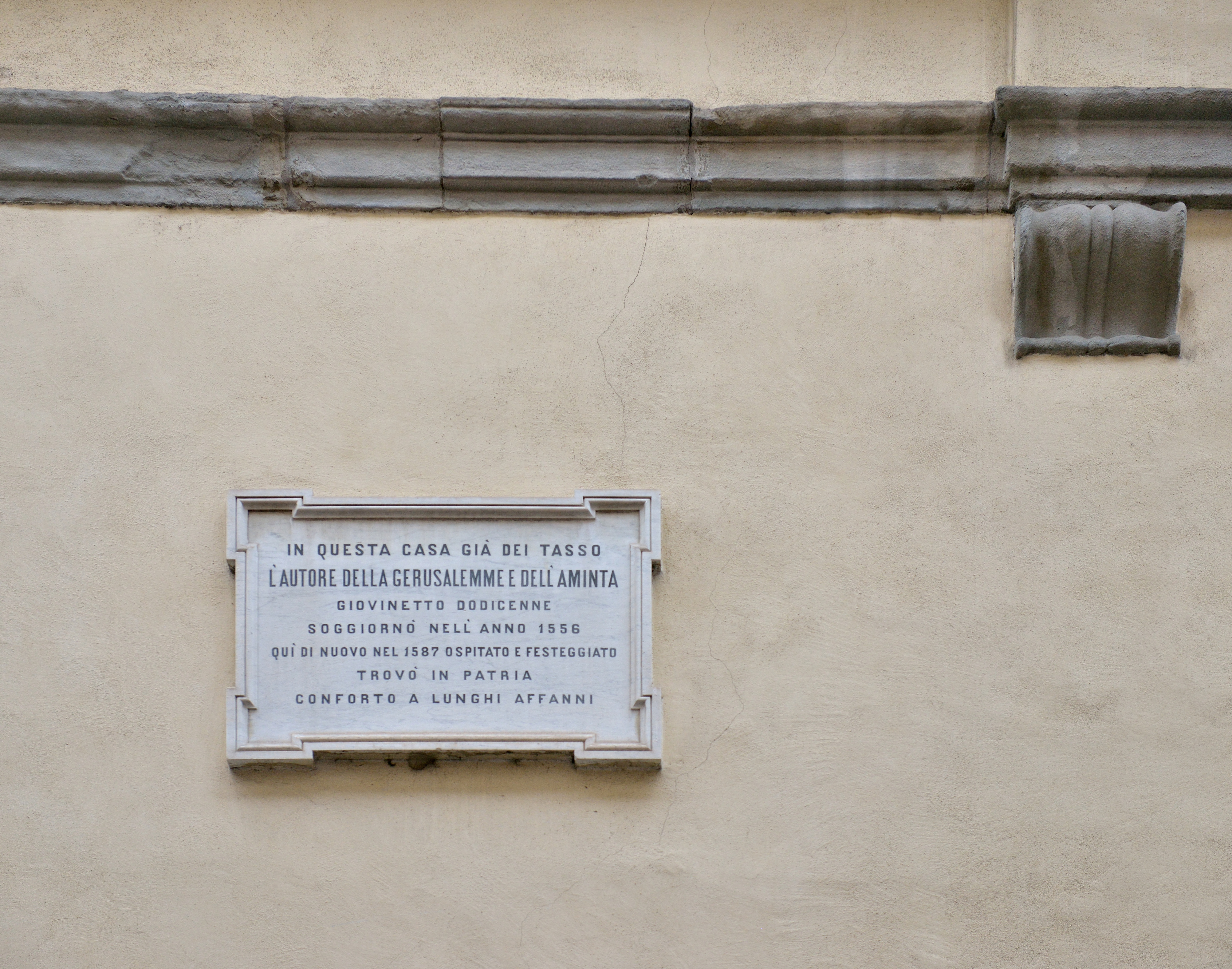 Plaque at the home of Torquato Tasso in Bergamo